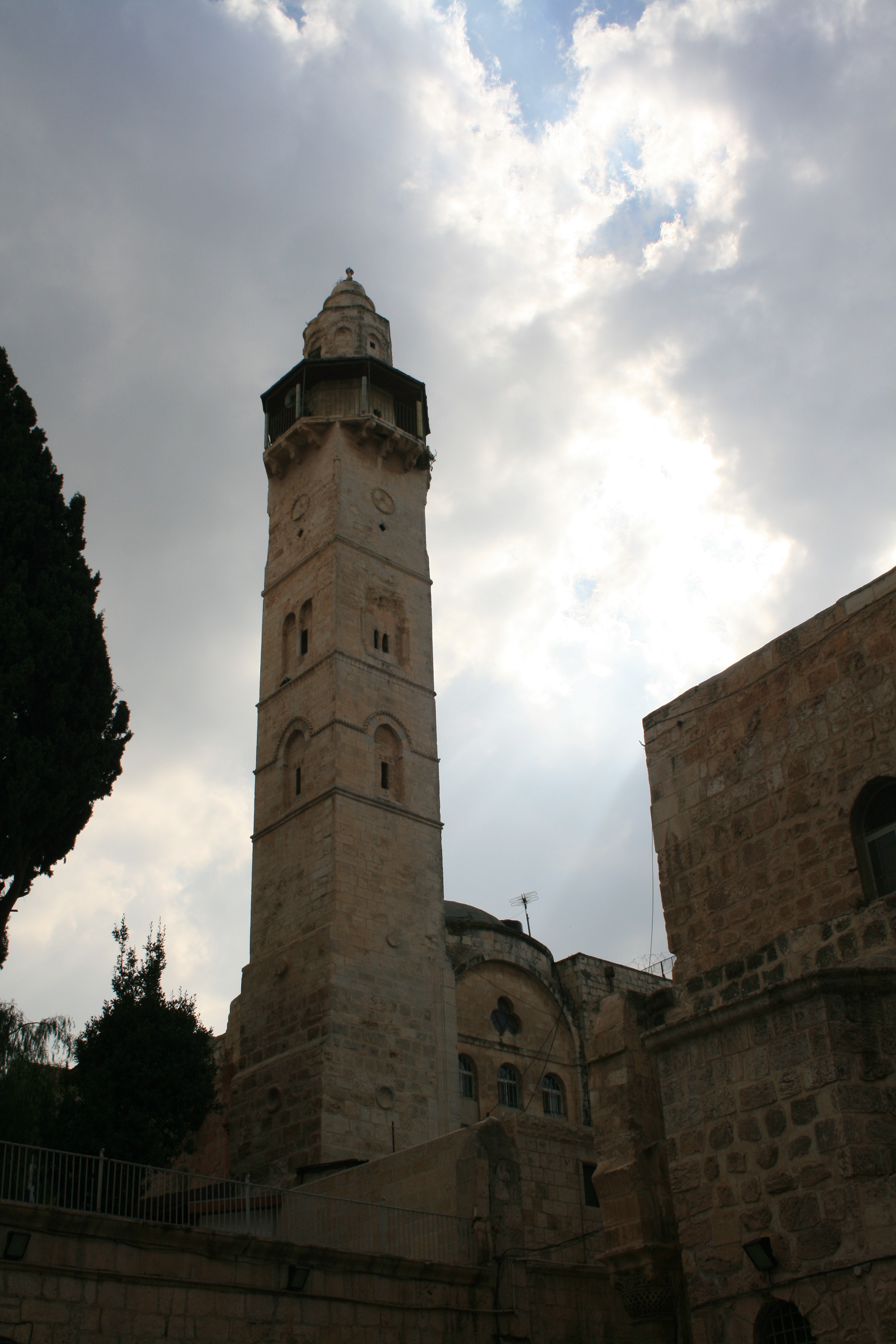 Mosque of Omar, Jerusalem